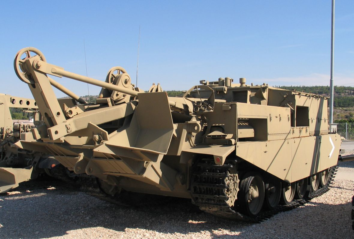 Description: Centurion ARV Mk II in Yad la-Shiryon Museum, Israel. Source: Photo by me, User:Bukvoed.